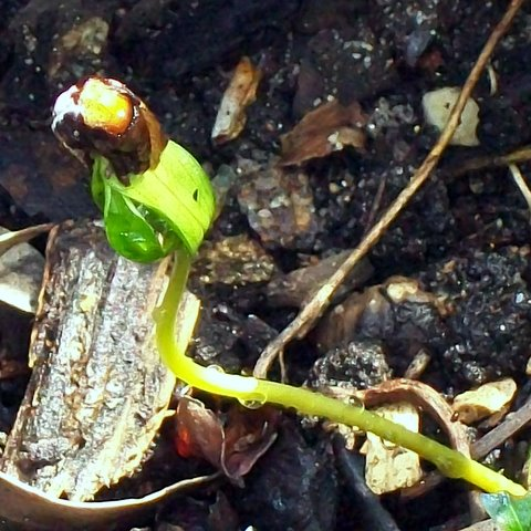 Elaeocarpus eumundi seedling germinating